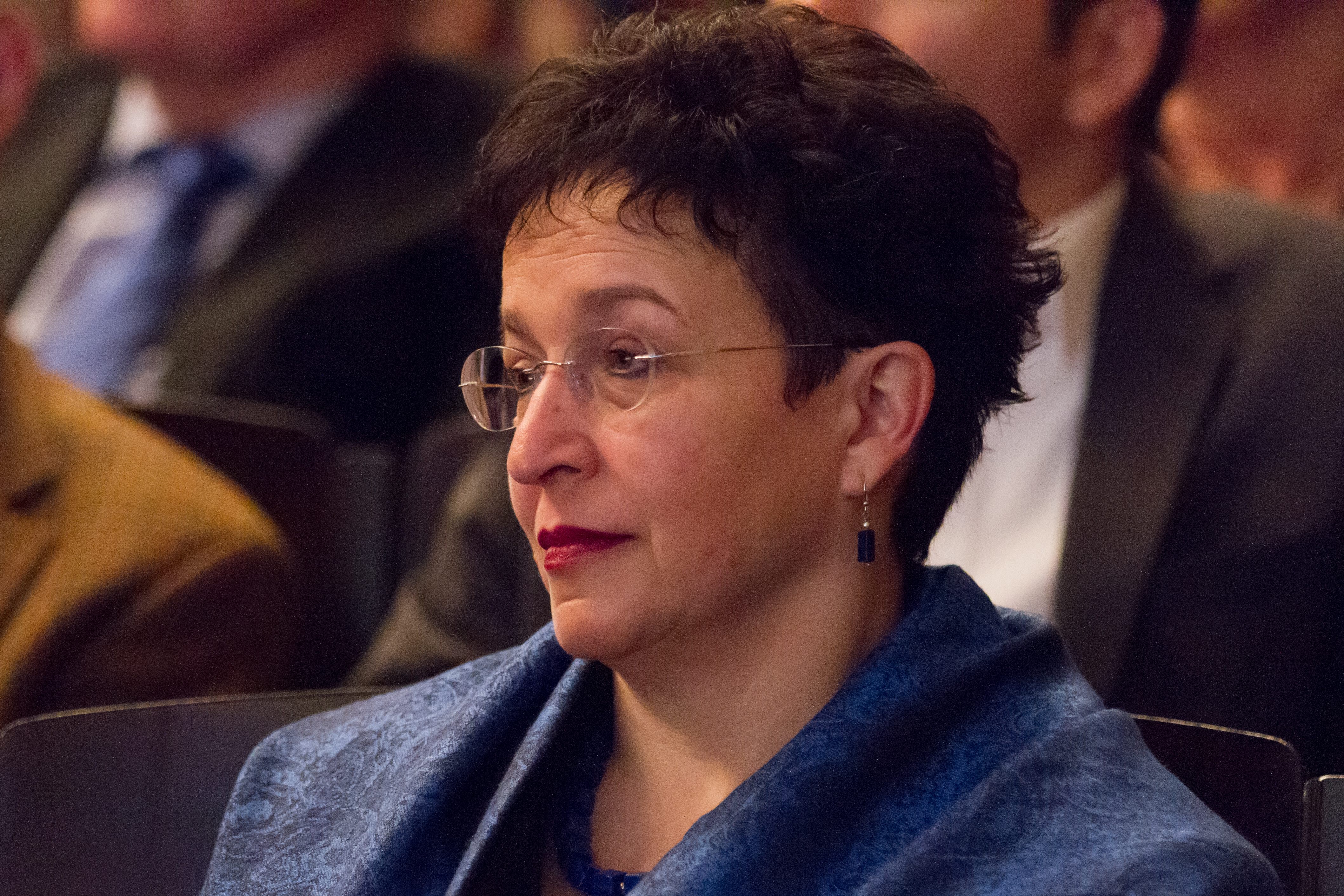 Series: Liberals' Epiphany rally hosted by the FDP Baden-Württemberg in the opera house of Stuttgart on January 6, 2015 Image: Birgit Homburger